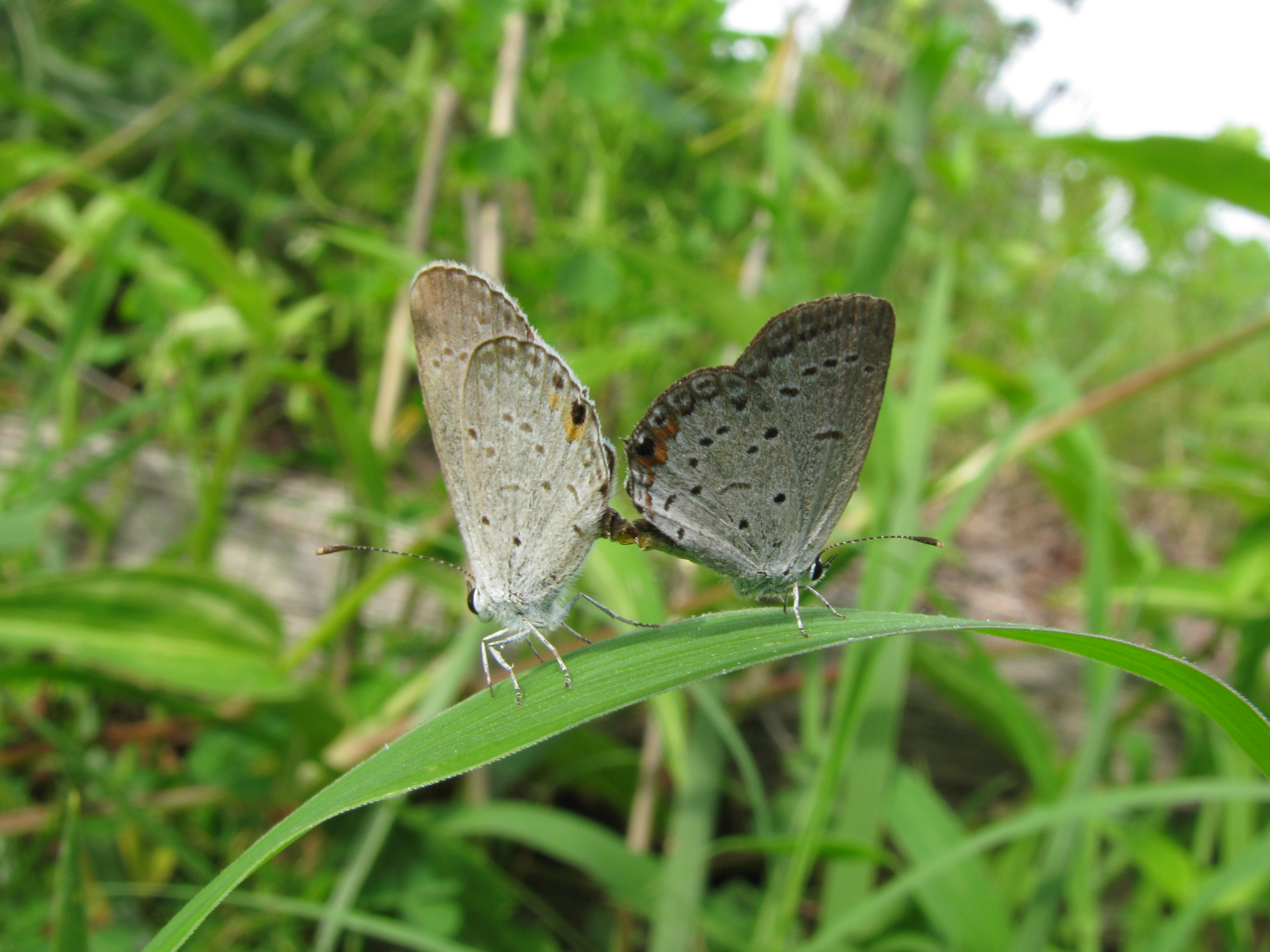 A pair of Cupido comyntas (Eastern Tailed-Blue) mating.